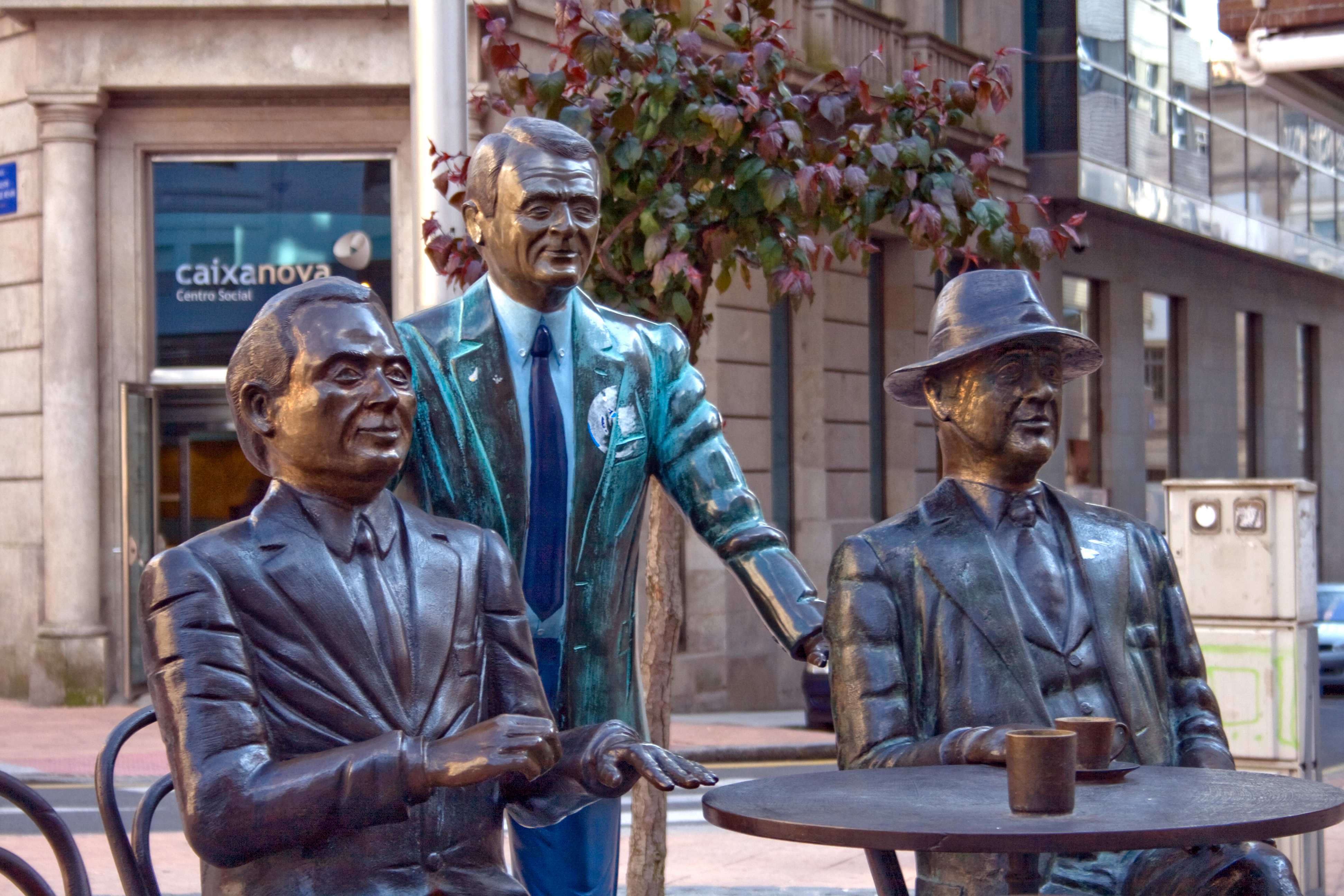 Sculptures in Pontevedra (city)